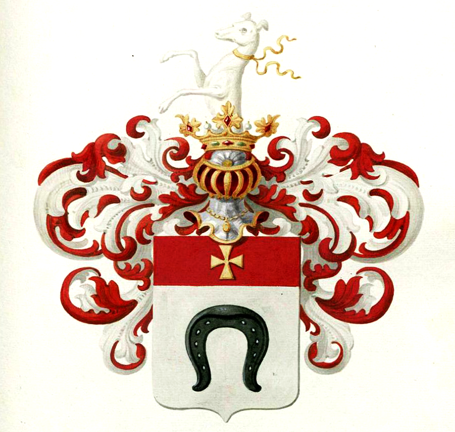 Coat of Arms of Muhanovy family